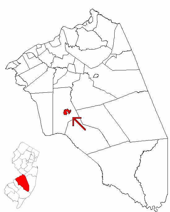 Map of Burlington County highlighting Medford Lakes